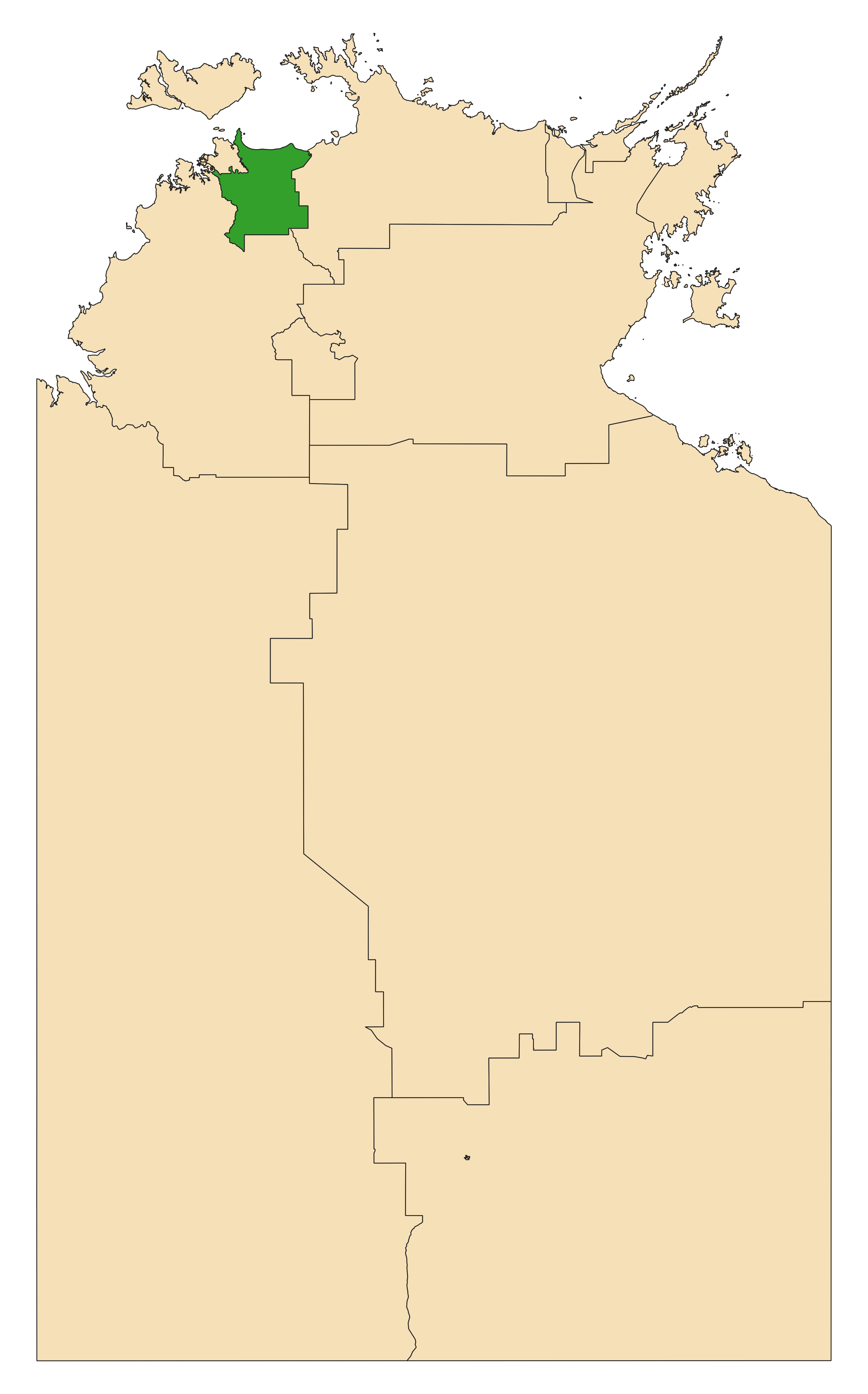 Location of the electoral division of Goyder (dark green) in the Northern Territory at the 2020 Northern Territory election